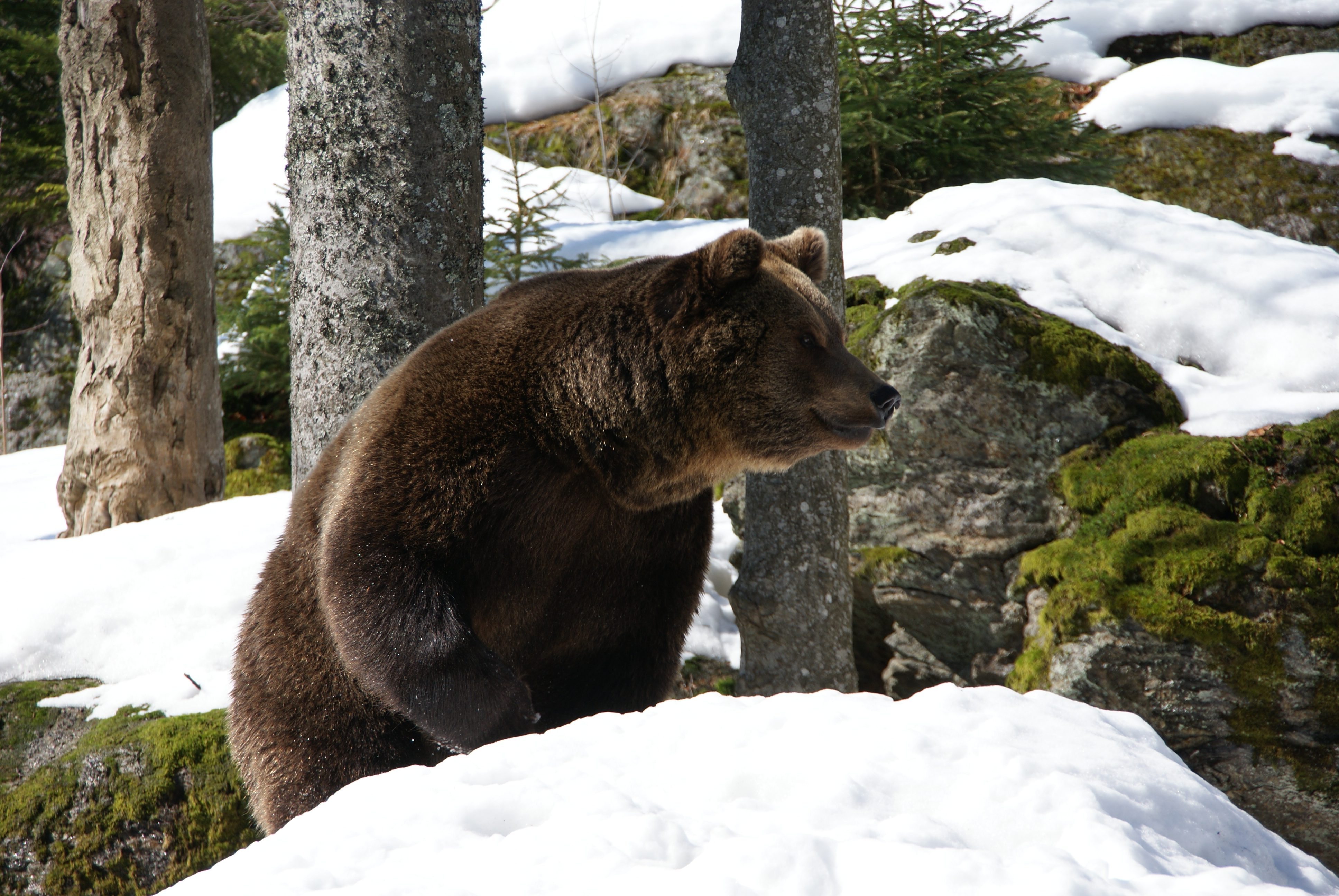 Brown Bear in an open-air enclosure at the National Park Bavarian Forest